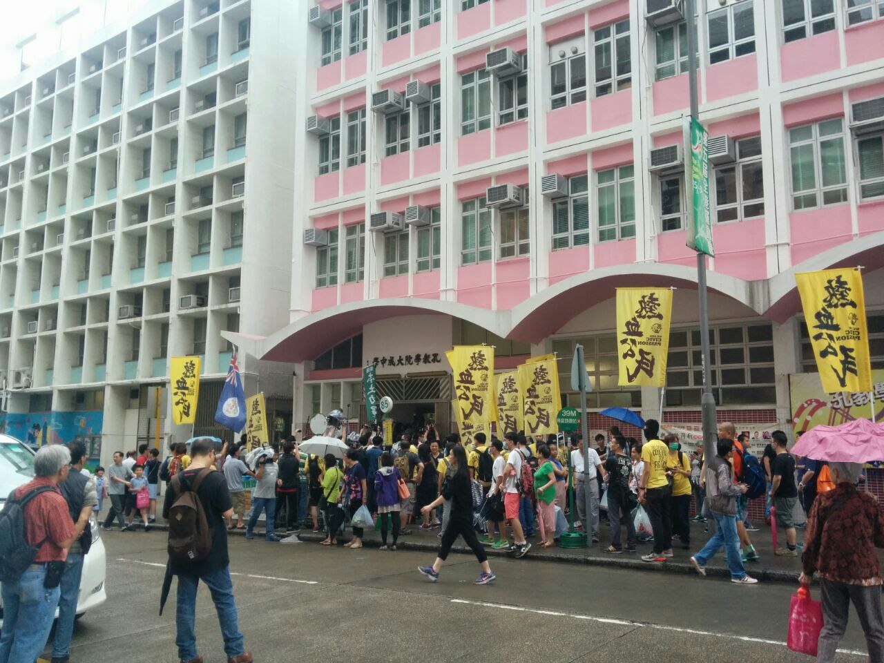 Protest of the Siu Yau-wai Incident in front of Tai Shing Primary School